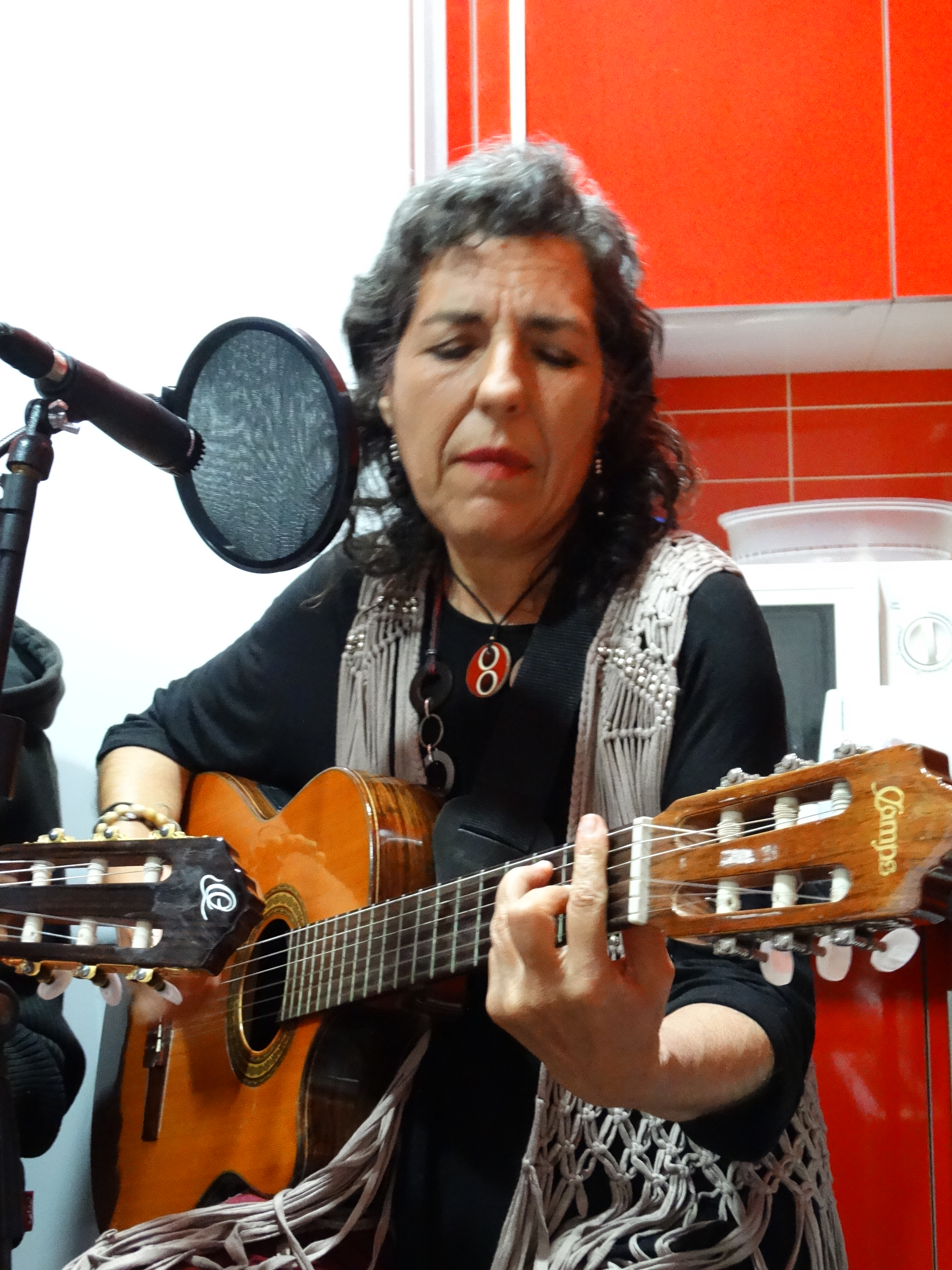 Nieves durante un videoclip